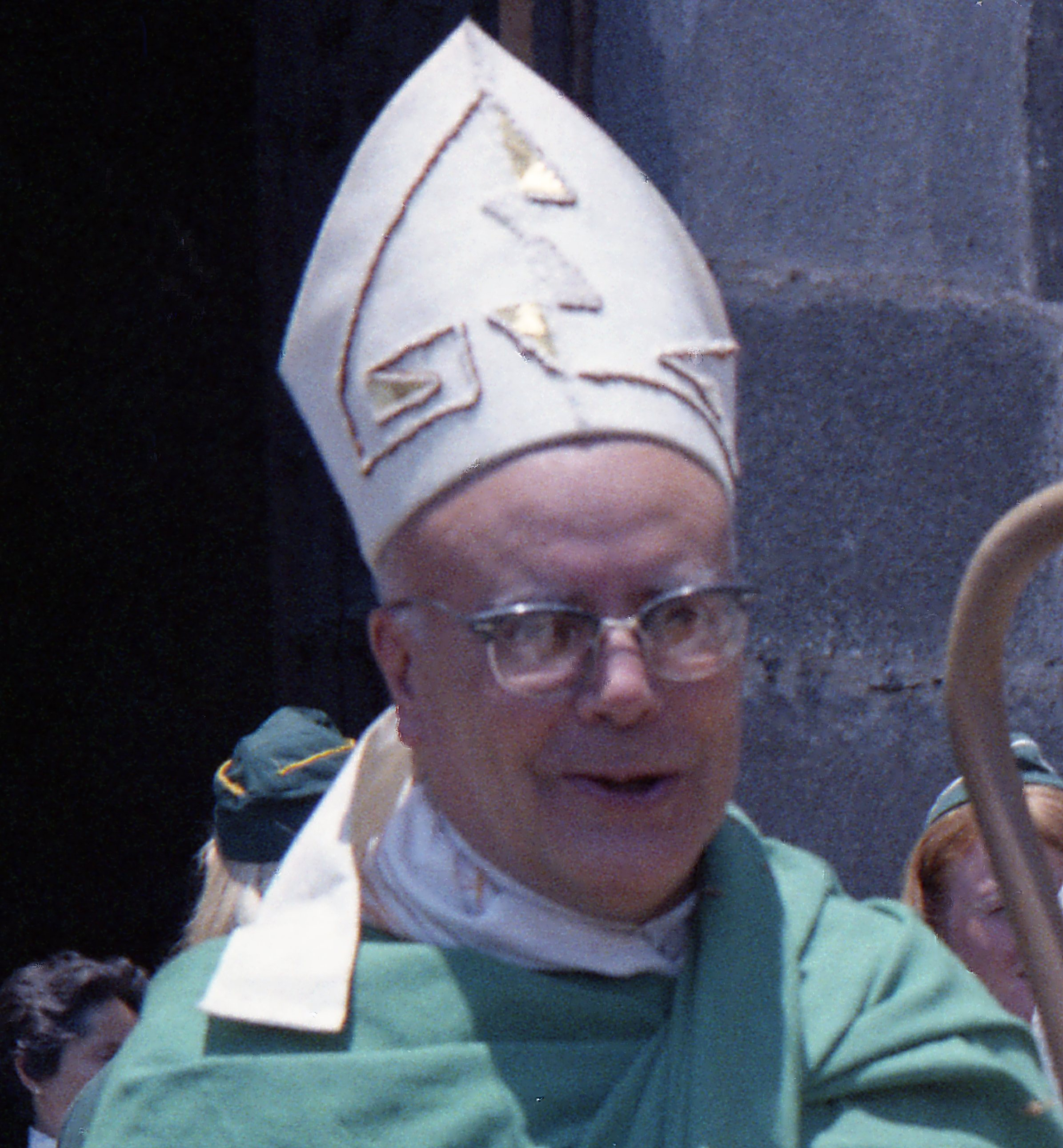 Sergio Méndez Arceo Cuernavaca, bishop of Cuernavaca in 1970